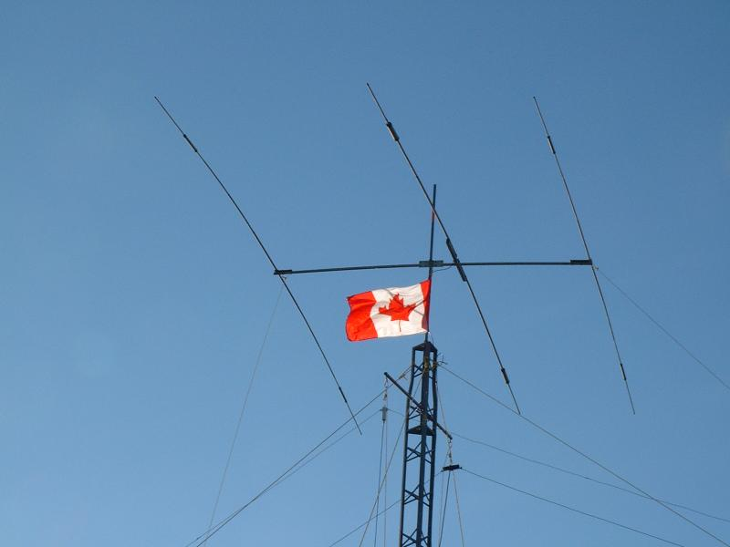 The top of a tower supporting a yagi and several wire antennas. Snapshot by User:aarchiba. The flag is a Canadian flag. This work has been released into the public domain by its author, aarchiba. This applies worldwide. In some countries this may not be legally possible; if so: aarchiba grants anyone the right to use this work for any purpose, without any conditions, unless such conditions are required by law. Слика:Montreal-tower-top.thumb2.jpg